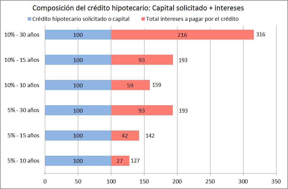 Mortgage loan: Principal balance and Interest-only loan. Mortgage credit composition. Capital or requested credit and interest on several assumptions -interest rate and years-.